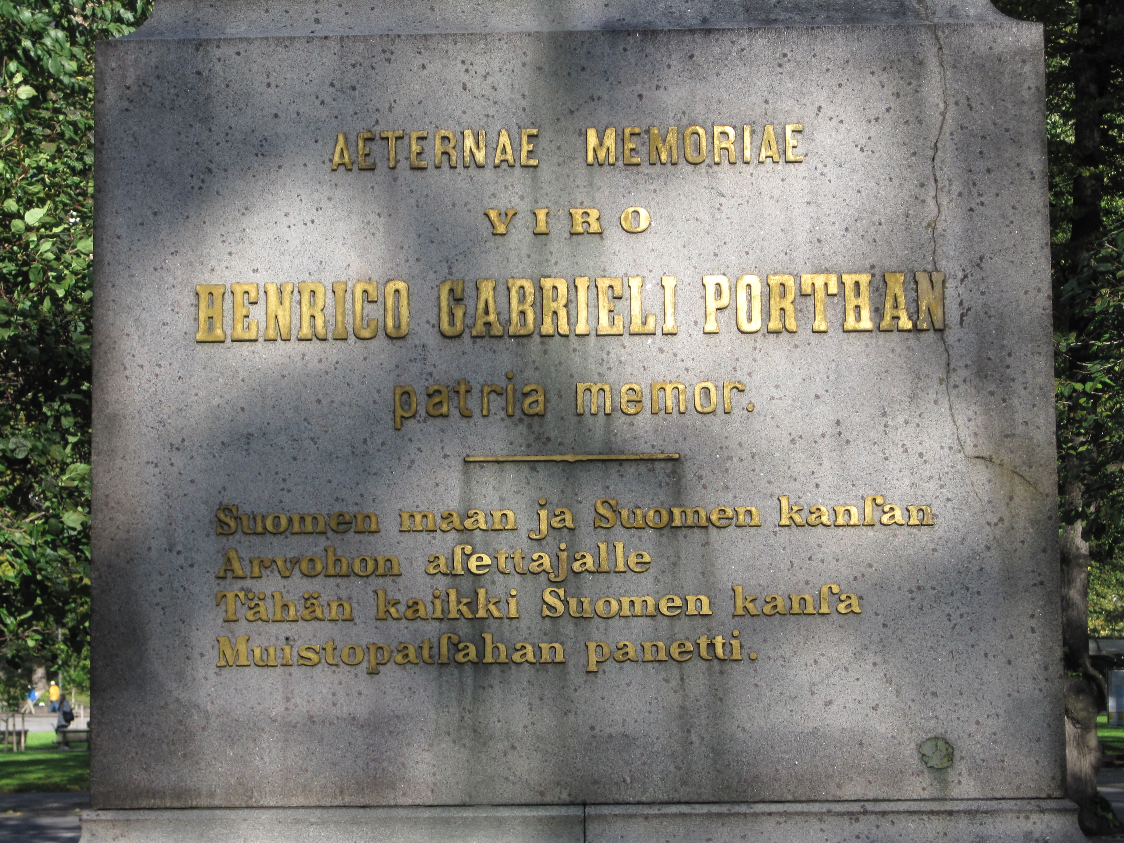 Statue of Henrik Gabriel Porthan, Turku, Finland check usage